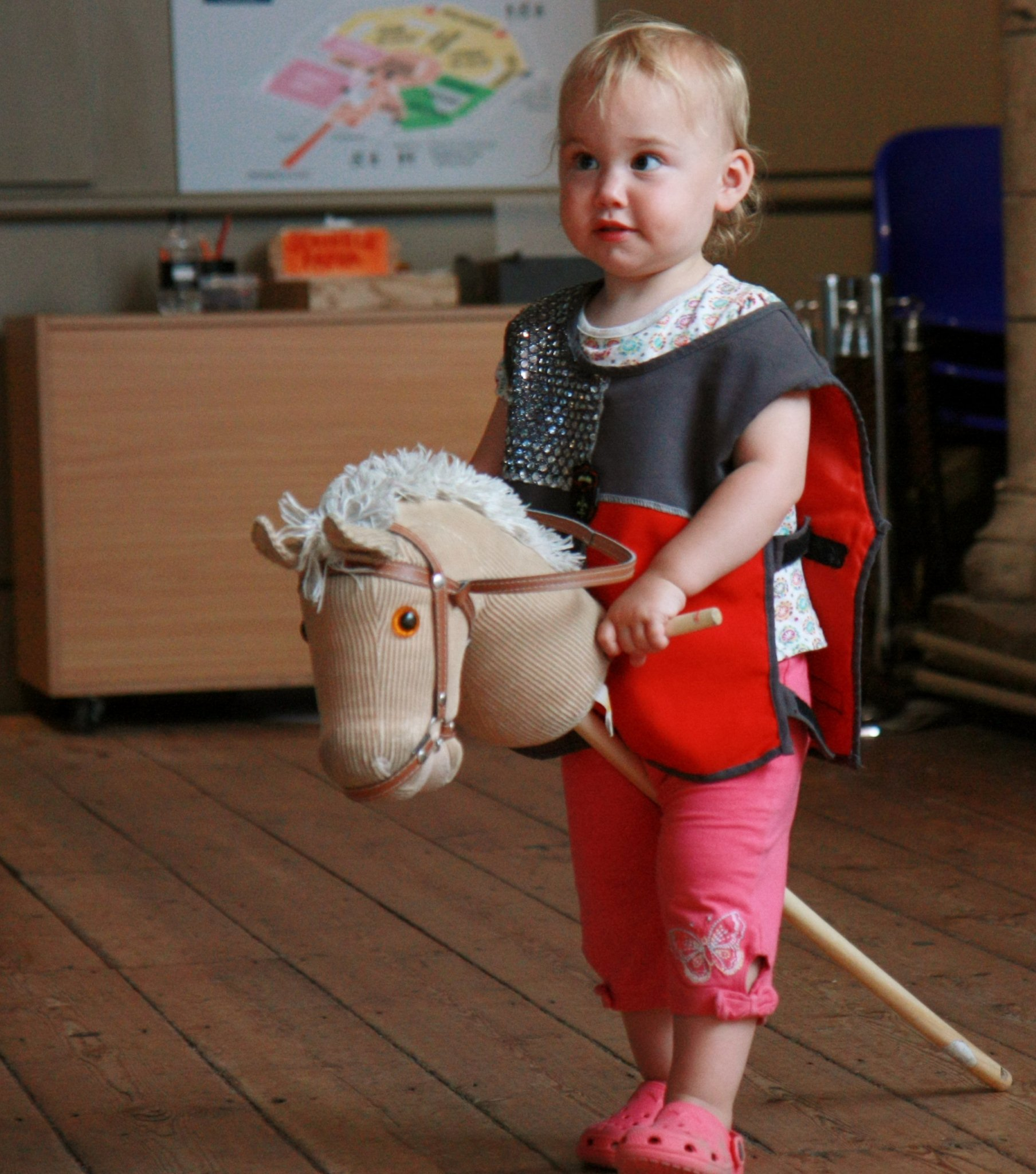 Hobby horse